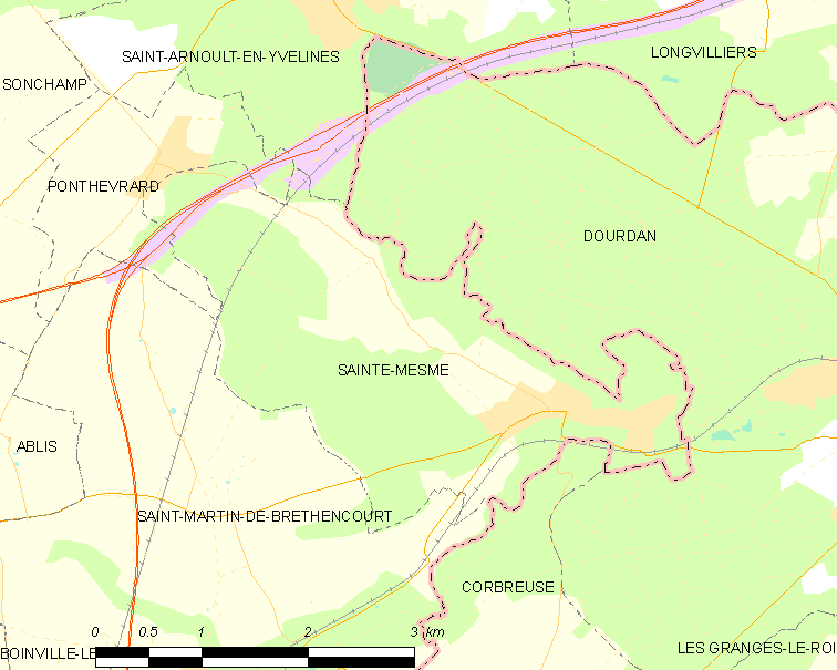 Map of French municipality Sainte-Mesme